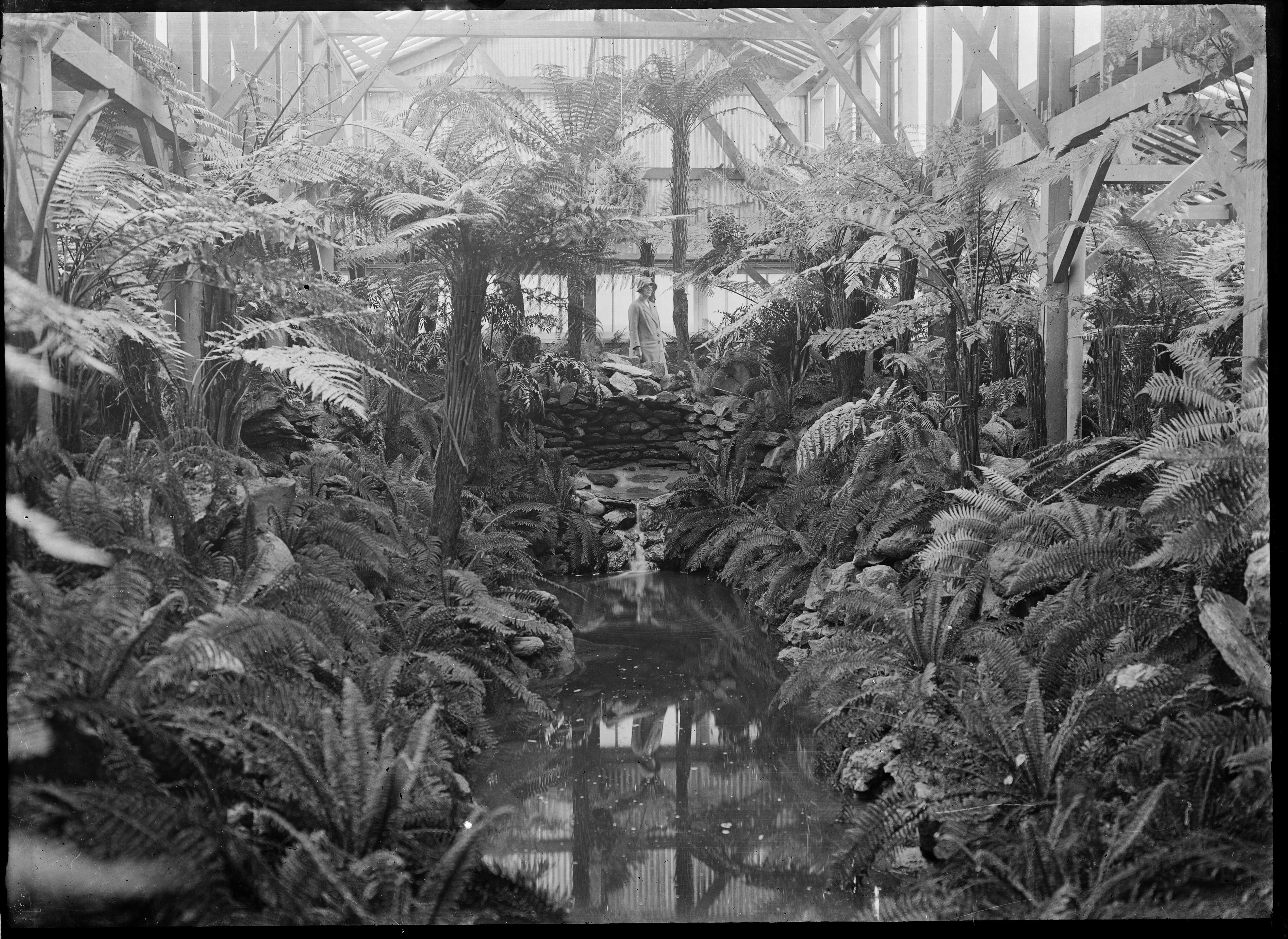 Interior view of the fernery in a glasshouse at the Dunedin Botanic Garden. There is a pool in the foreground, with water trickling over stones in the centre. Ferns line the edges of the water, and a tall tree fern is visible in the background. A woman (probably the photographer's wife, Laura Godber) is standing in the background. Photographed by Albert Percy Godber in 1926.